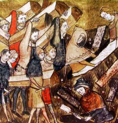 The burial of the victims of the plague in Tournai. Detail of a miniature from "The Chronicles of Gilles Li Muisis" (1272-1352), abbot of the monastery of St. Martin of the Righteous. Bibliothèque royale de Belgique, MS 13076-77, f. 24v.